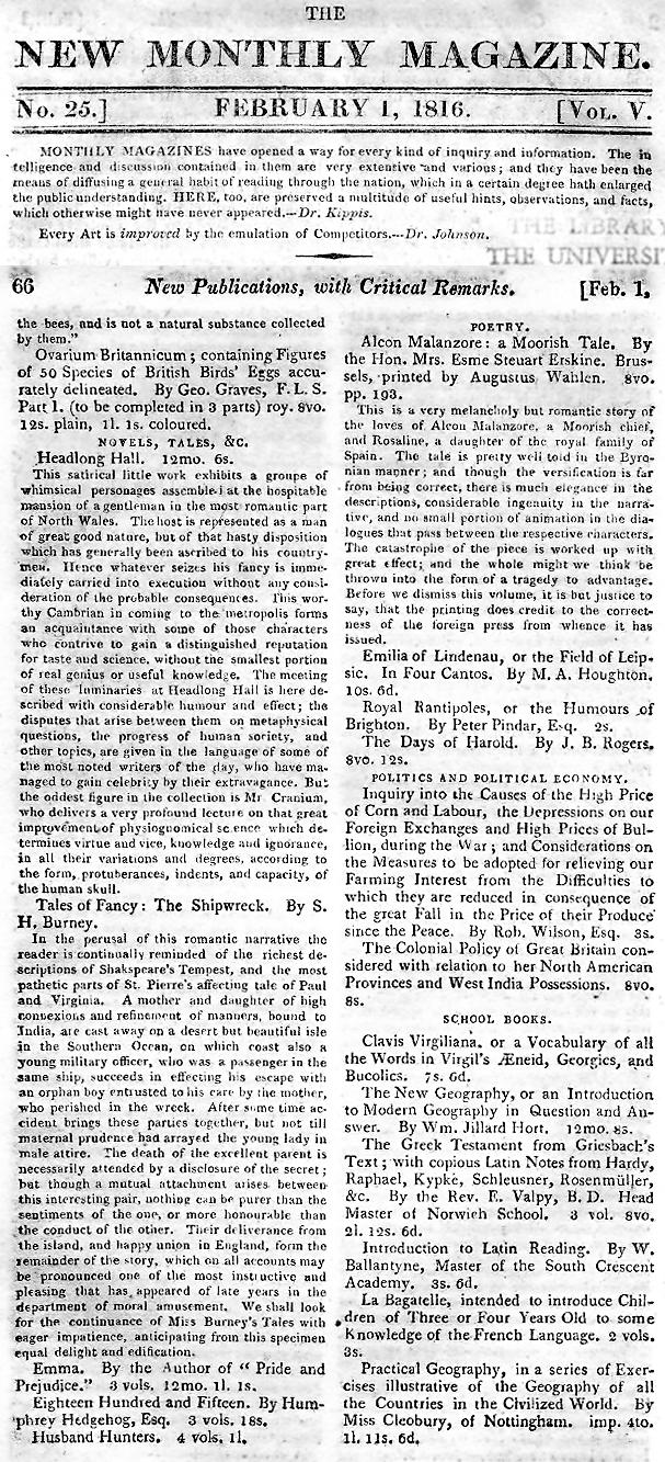 The New Monthly Magazine for February 1, 1816 (volume V, issue No. 25). Composite image showing masthead from front of the issue and below that a scan of page 66. The relative space given to the notices of "NOVELS, TALES, &C." in the first column illustrates how much claim to literary merit Jane Austen's works had in the judgement of at least some of her contemporaries. Headlong Hall by Thomas Love Peacock and Tales of Fancy: The Shipwreck by S.H. Burney are the only two to receive actual reviews.